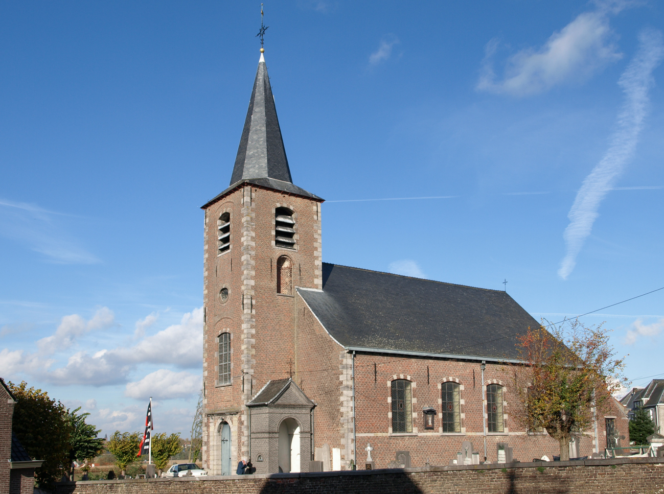 Sint-Amanduskerk